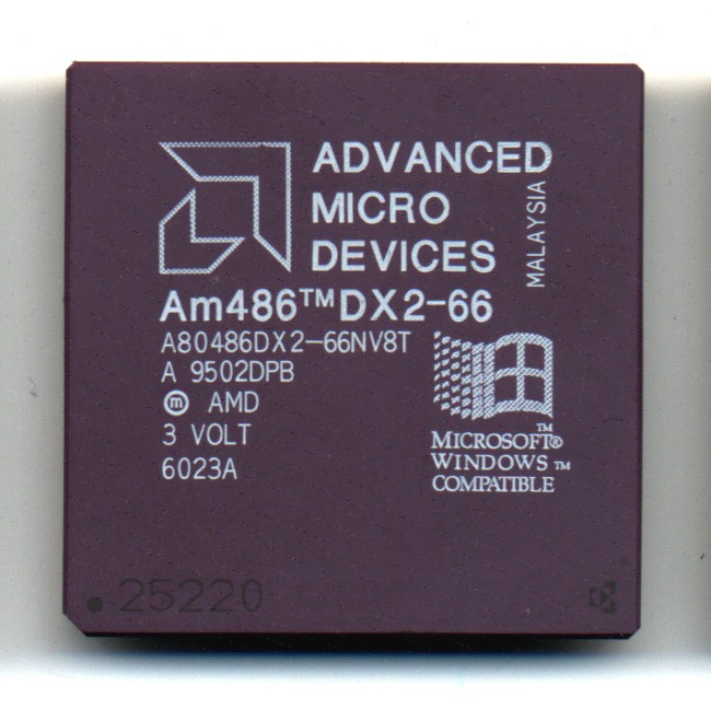 AMD Am486 DX2-66 microprocessor, 66 MHz, 3.3V NV8T version with 8 KiB Write-Through L1-Cache Source: my own CPU collection See also: SV8B version with Write-Back L1-Cache